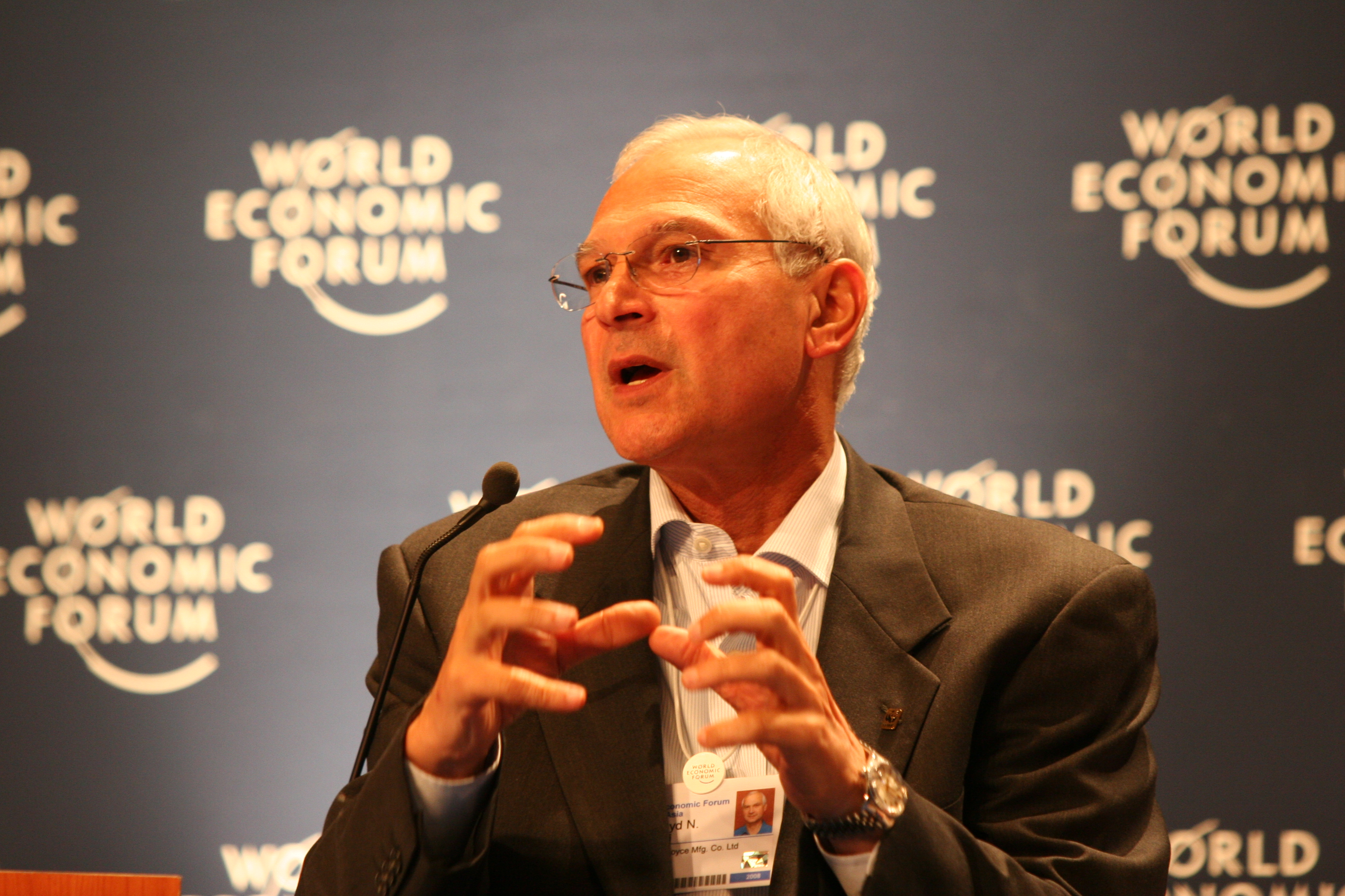 KUALA LUMPUR/MALAYSIA, 15JUN08 - Jamshyd N. Godrej, Chairman and Managing Director, Godrej & Boyce, India, captured during the Closing Plenary (Responding to New Uncertainties) of the World Economic Forum on East Asia 2008 in Kuala Lumpur, Malaysia, June 15, 2008. Copyright World Economic Forum ( Alim